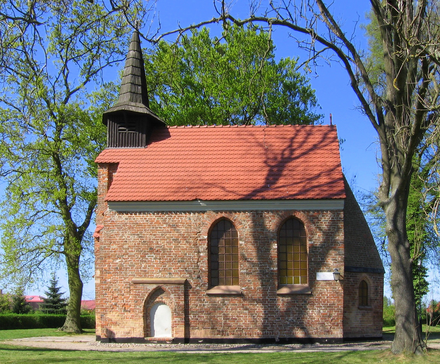 St. John the Baptist Roman Catholic Church in Budzistowo, Poland